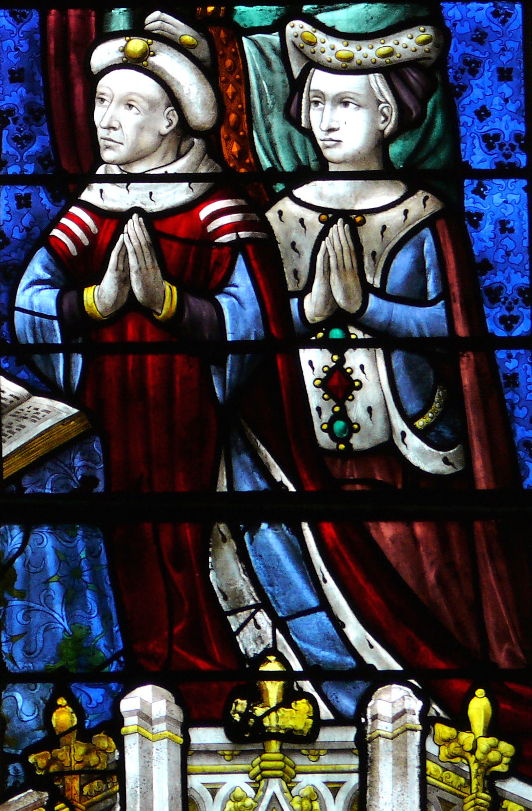 Louis of Bourbon-La Marche. 15th-century window of Vendôme Chapel in the south aisle of Chartres Cathedral.